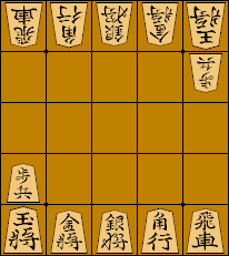 Initial position for the game of minishogi.